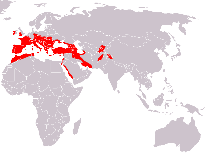 Lesser Horseshoe Bat (Rhinolophus hipposideros) range